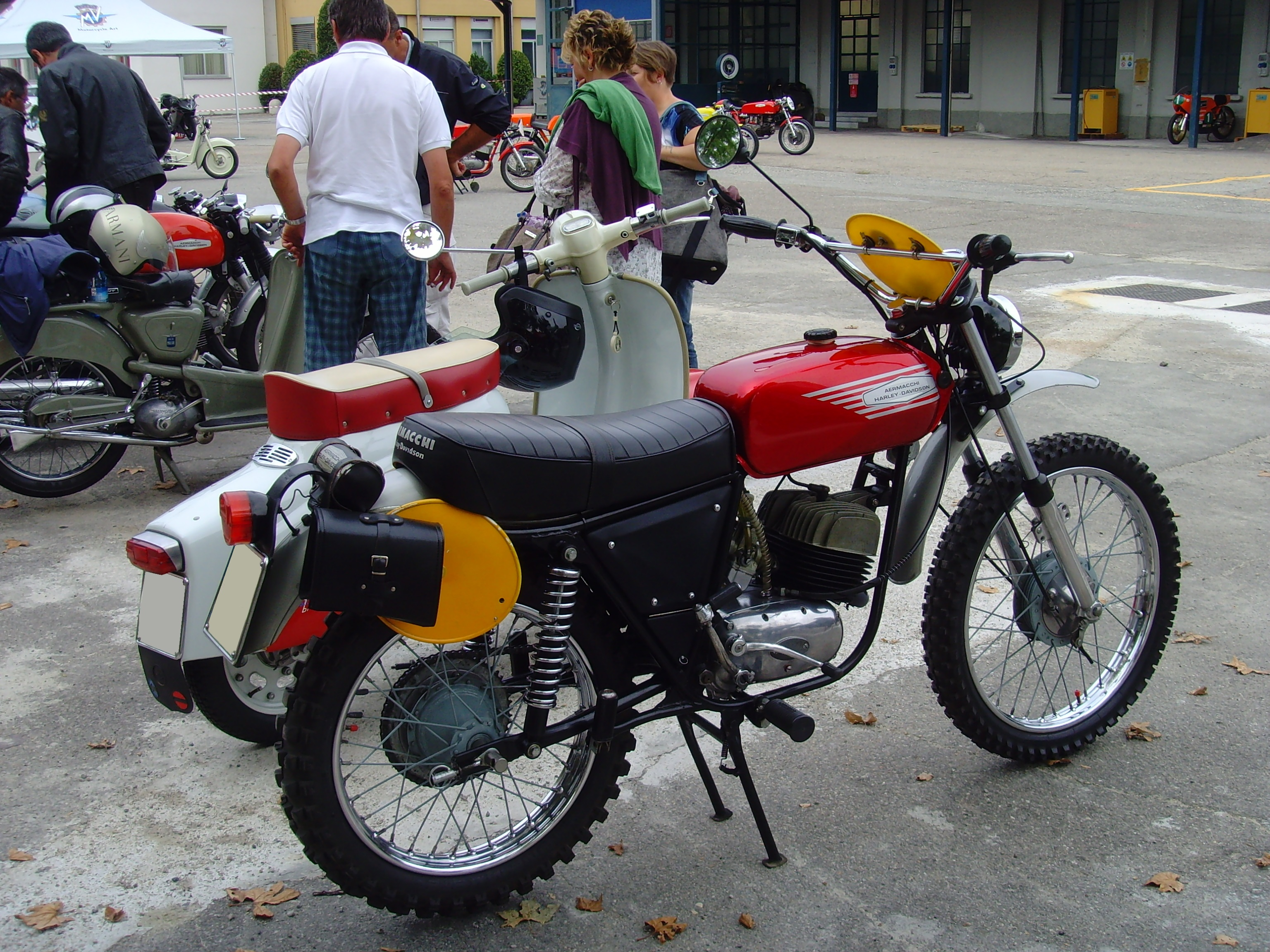 Aermacchi-Harley Davidson 125 R/C mk71 (1971-1972)